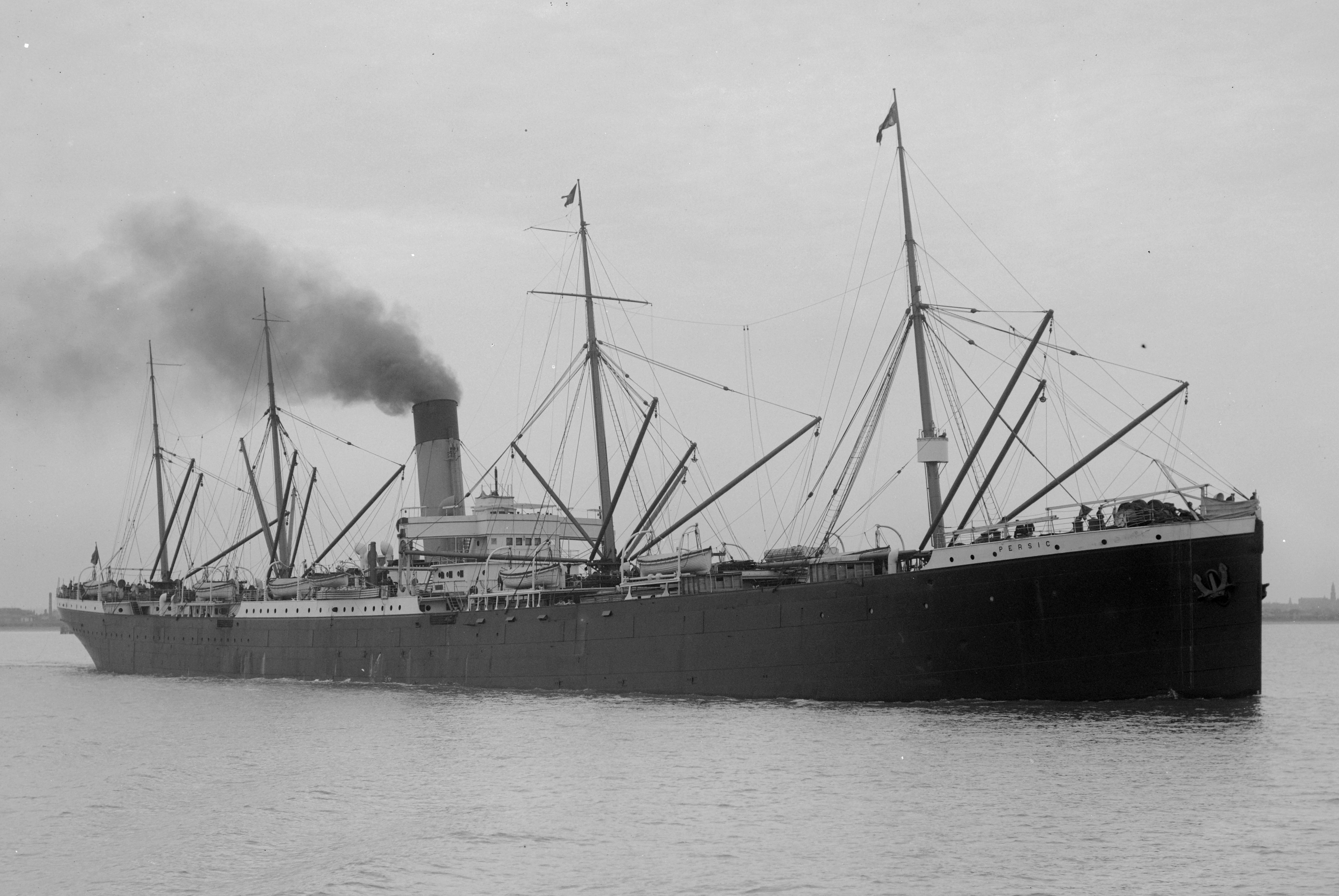 The steamship and White Star Liner Persic.